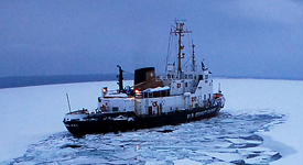 KATMAI BAY (WTGB 101) was homeported in Sault Sainte Marie, Michigan.